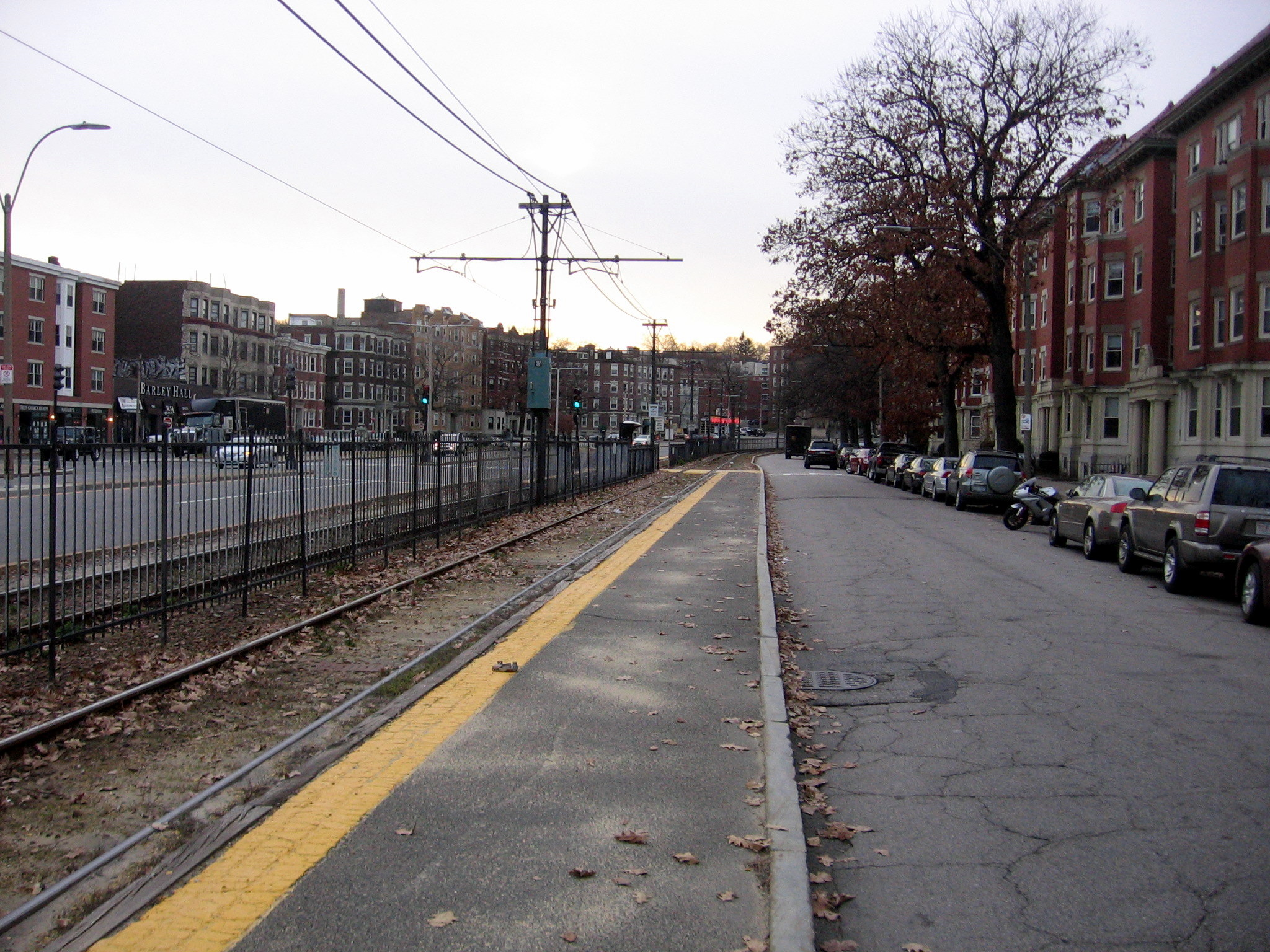 Outbound platform at Griggs Street on the B Branch